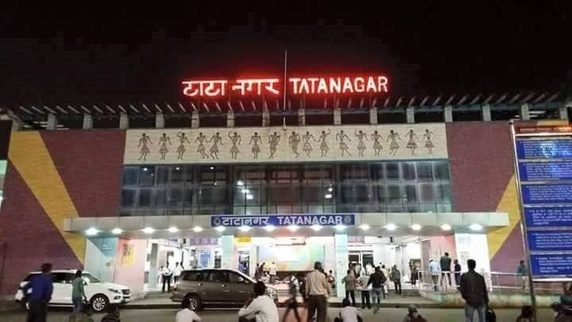 Tatanagar Junction